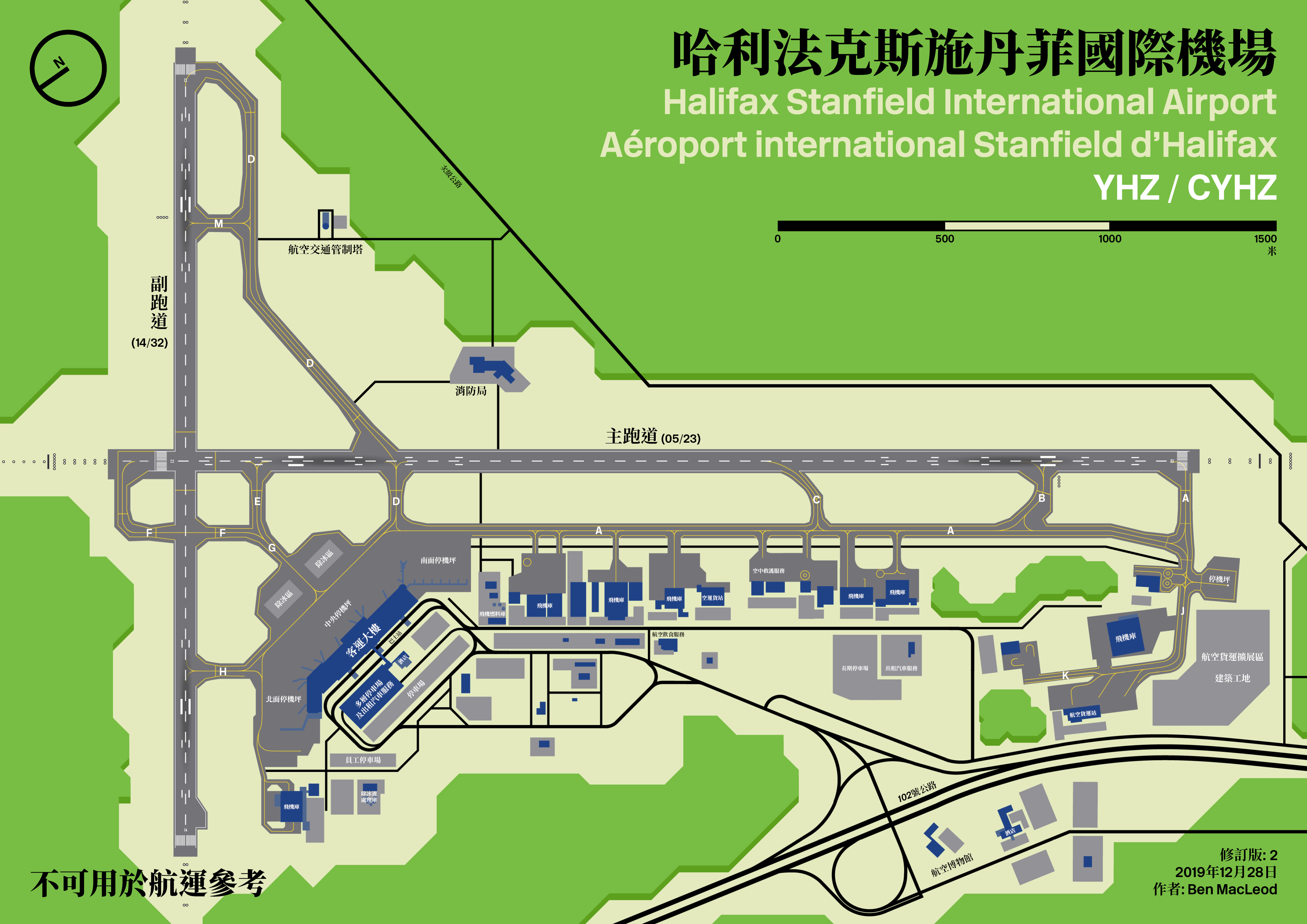 Diagram of Halifax Stanfield International Airport in Halifax, Nova Scotia, Canada (Chinese version of File:Halifax airport diagram.jpg).